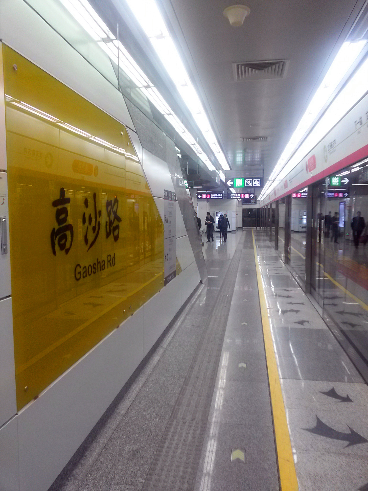 Gaosha Road Station